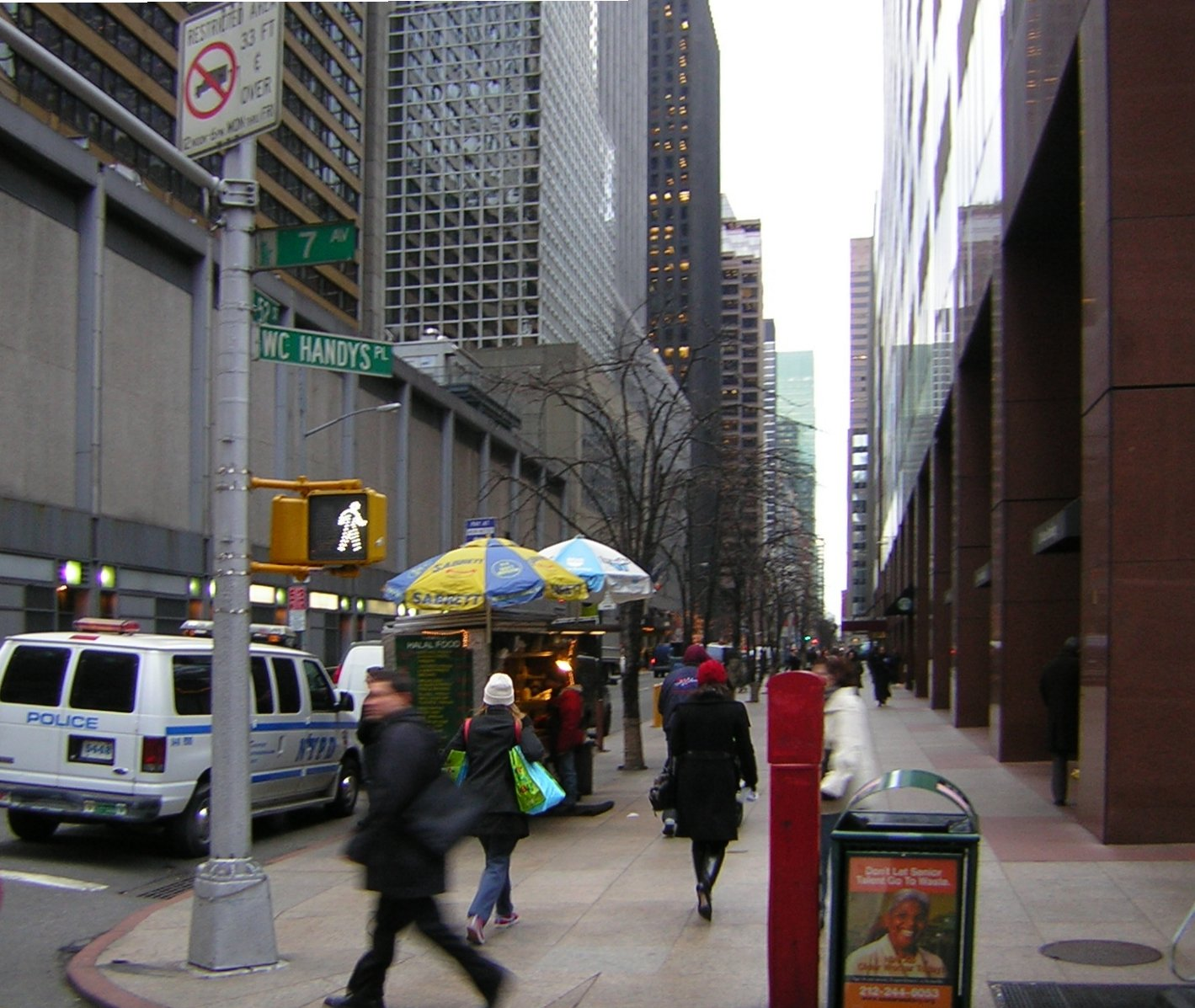 From 7th Avenue, facing east down the south side of W52nd Street, showing the secondary street name of "WC HANDYS PLACE".